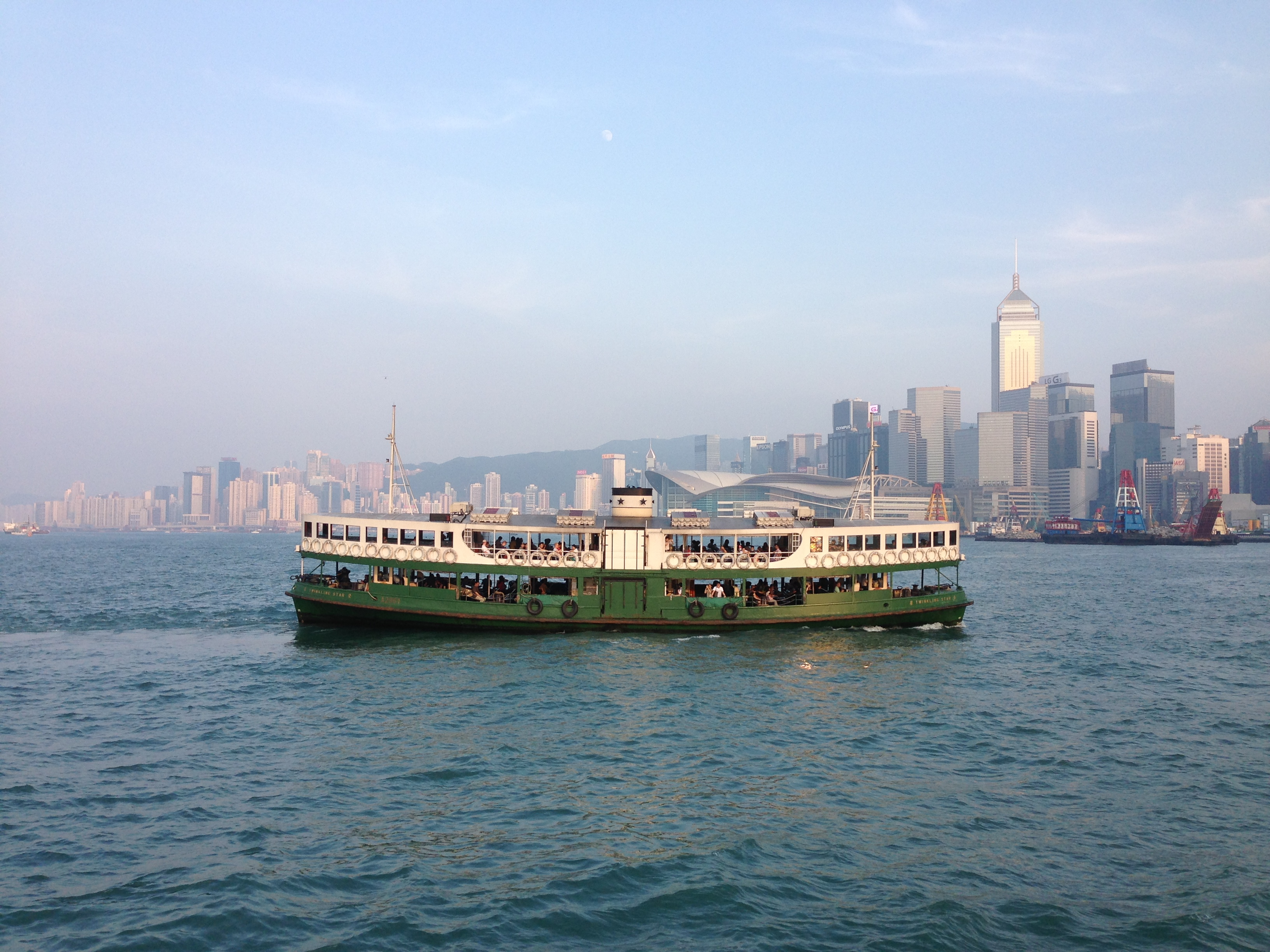 Golden Star Ferry between Hong Kong Island and Kowloon